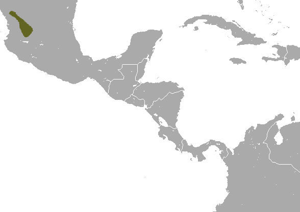 Zacatecas Shrew (Sorex emarginatus) range